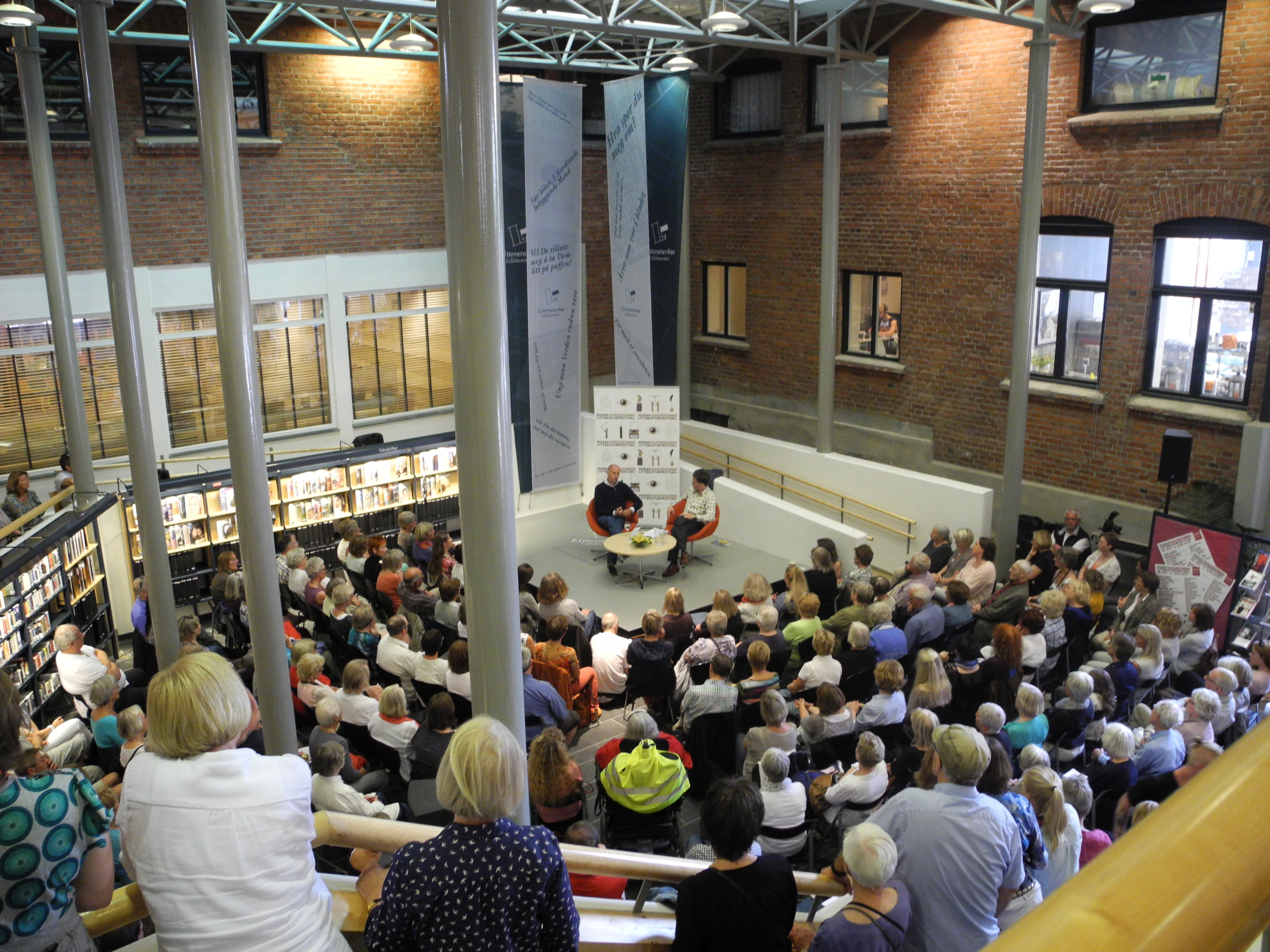 Event at The House of Literature, Lillehammer.